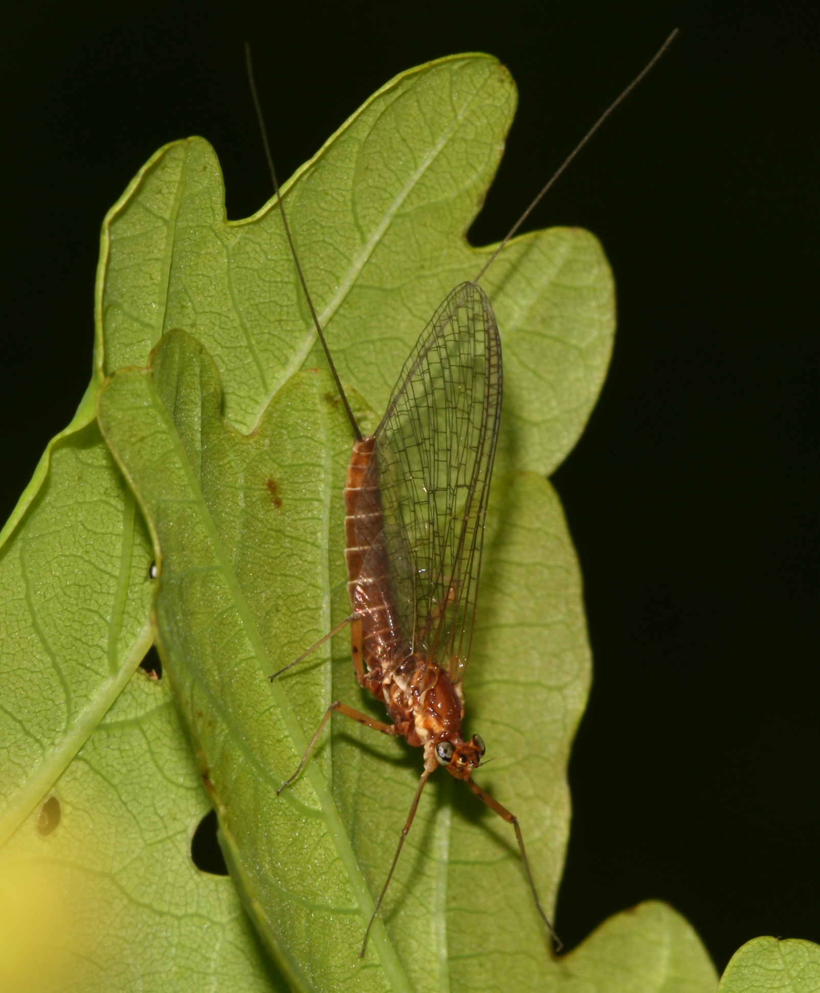 Mayfly sp.?